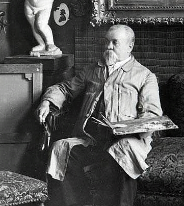 French painter, Théodore Jourdan in his studio (cropped)